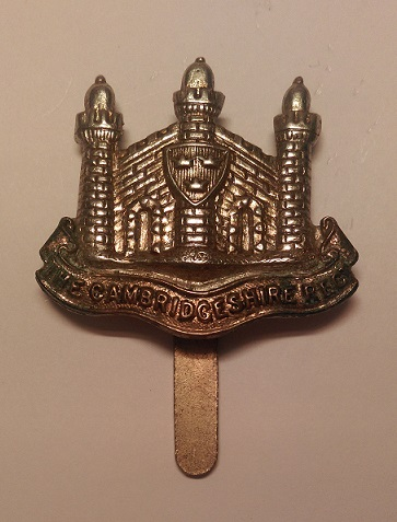 Photo of Cambridgeshire Regiment Cap Badge from personal collection